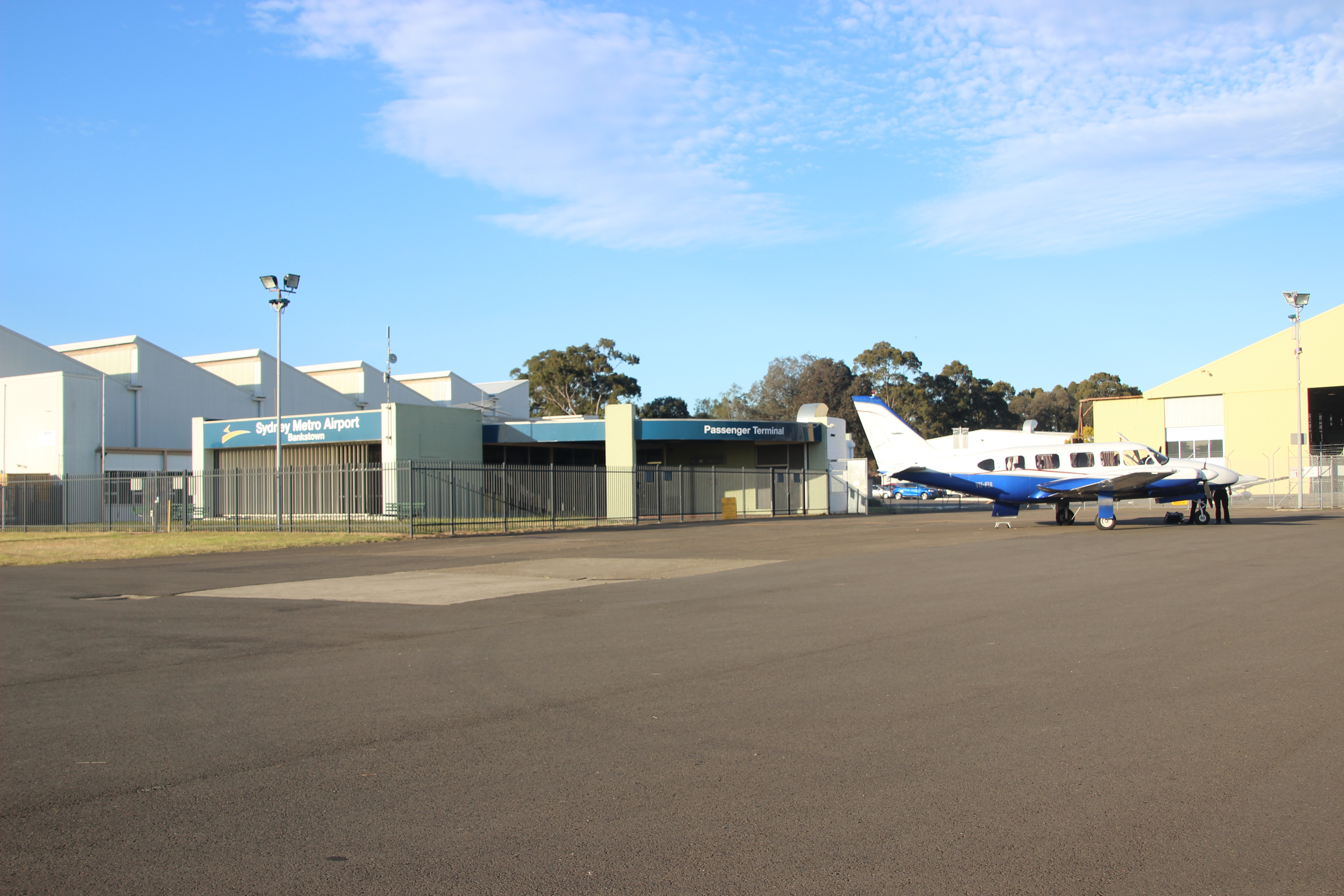 The passenger terminal at Bankstown Airport in Sydney, Australia; with a Piper Chieftain parked alongside. Digital image taken by YSSYguy on 25 October 2016, uploaded for use in the Bankstown Airport article. YSSYguy (talk) 00:12, 15 November 2016 (UTC)